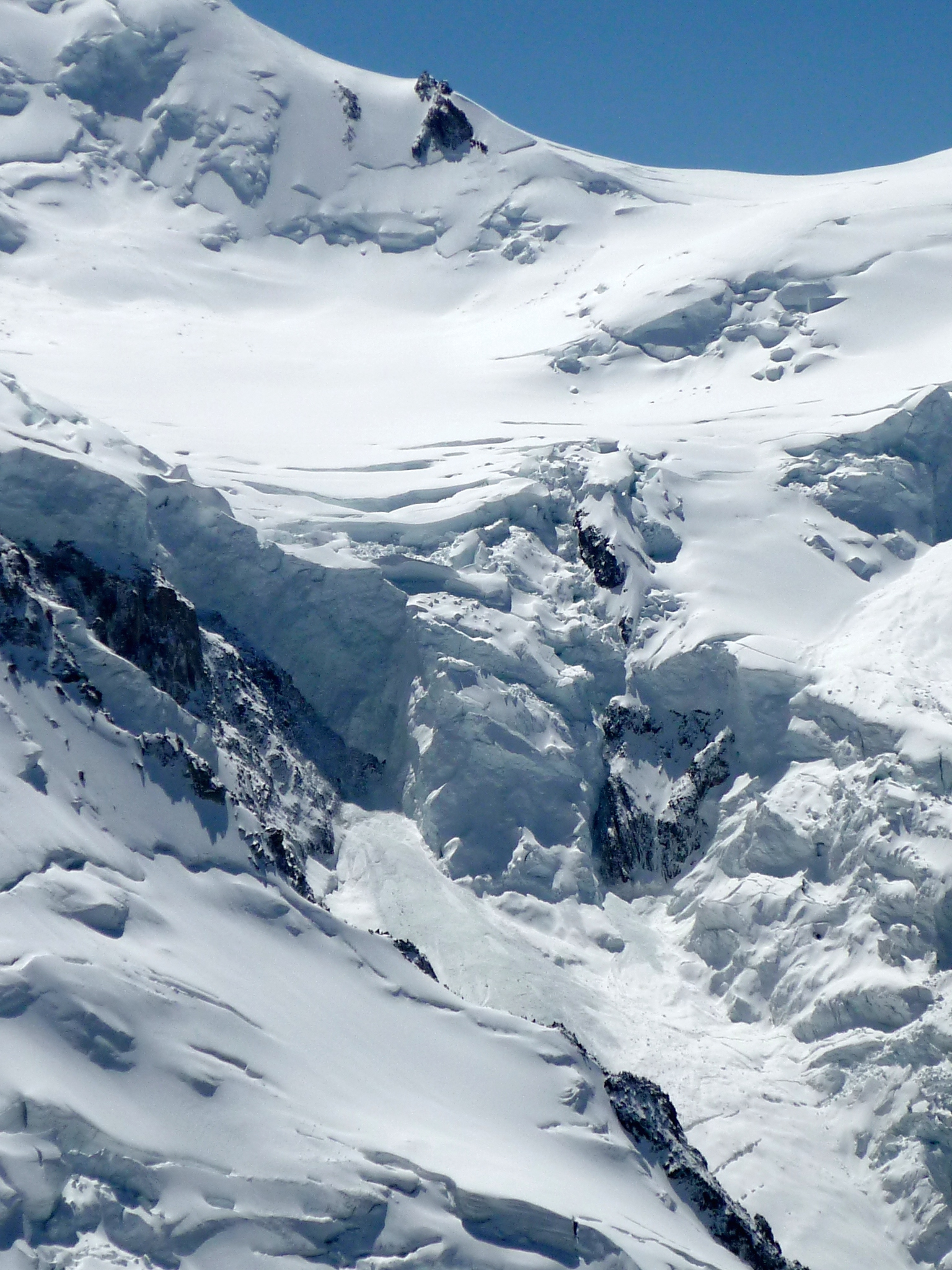 Bossons Glacier and Rochers Foudroyés seen from aiguille du Midi, Chamonix-Mont-Blanc, Haute-Savoie, France